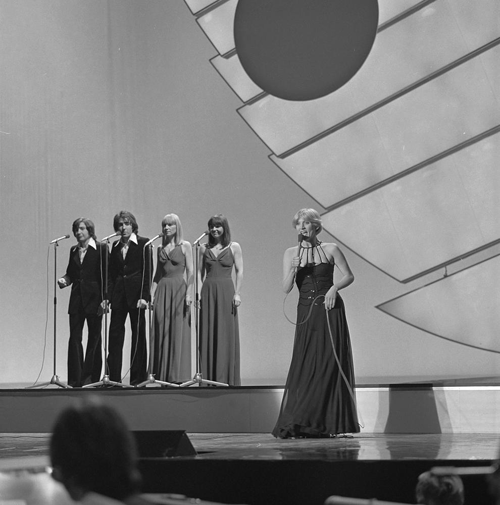 Mary Christy at a rehearsal for the Eurovision Song Contest 1976.